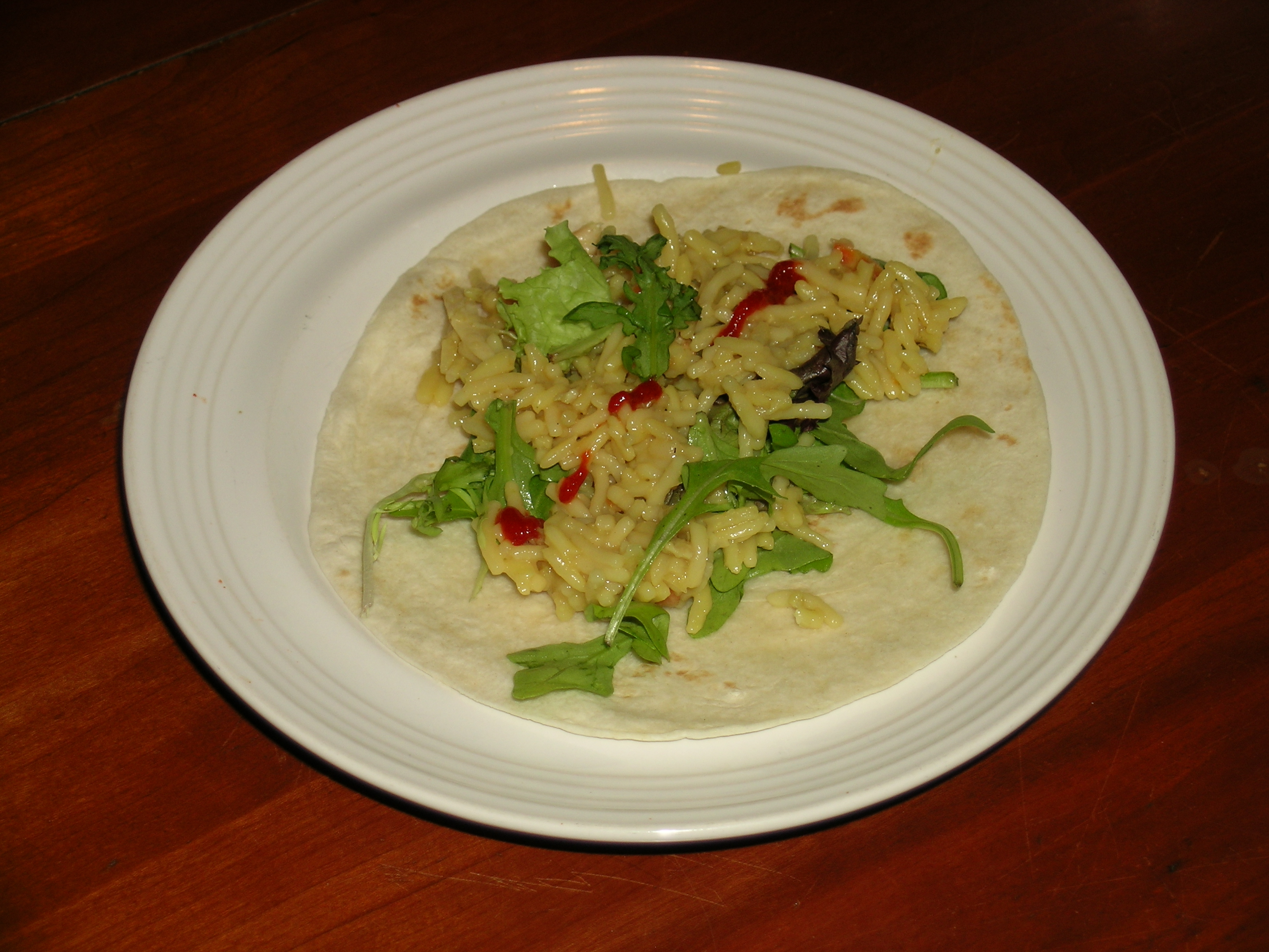 Dual-branded Knorr Lipton flavored rice mixed with bits of Perdue pre-cooked chicken and Stop & Shop "Salade European" brand baby argugula blend (arugula, spinach, lettuce, tatsoi, mizuna) pre-packaged salad topped with a small amount of Sriracha hot sauce from Huy Fong Foods (Chinese: 匯豐食品公司) and served on an Old El Paso soft tortilla.